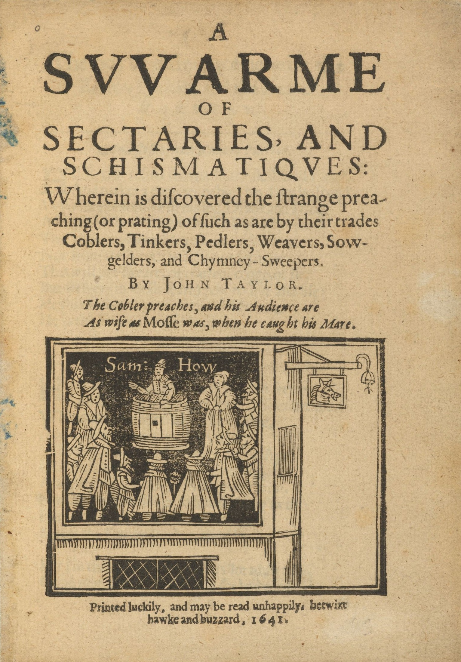 Title page: A swarm of sectaries, and schismatiques, wherein is discovered the strange preaching (or prating) of such as are by their trades coblers, tinkers, pedlers, weavers, sow-gelders and chymney-sweepers, 1641, by John Taylor (1580-1653). "Printed luckily, and may be read unhappily, betwixt hawke and buzzard, 1641". *EC.T2152.641s, Houghton Library, Harvard University